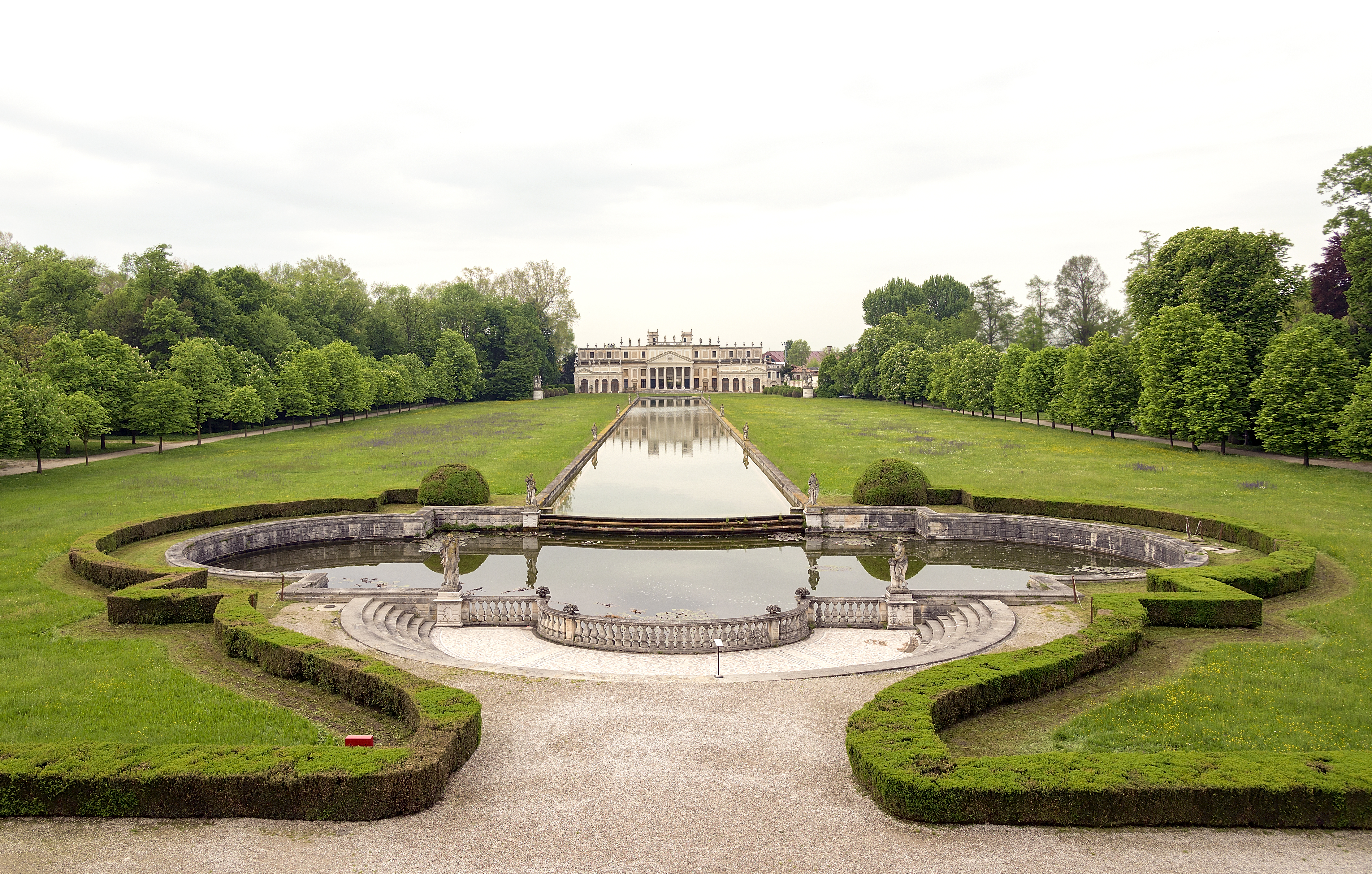 False facade and stables ofVilla Pisani, Stra. View per the main floor of the Villa.